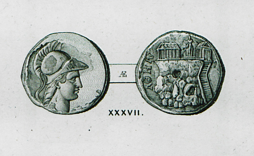 Ancient coin of Athens Obv Athena Rev The Acropolis of Athens from the north - Peter Oluf Brøndsted - 1830